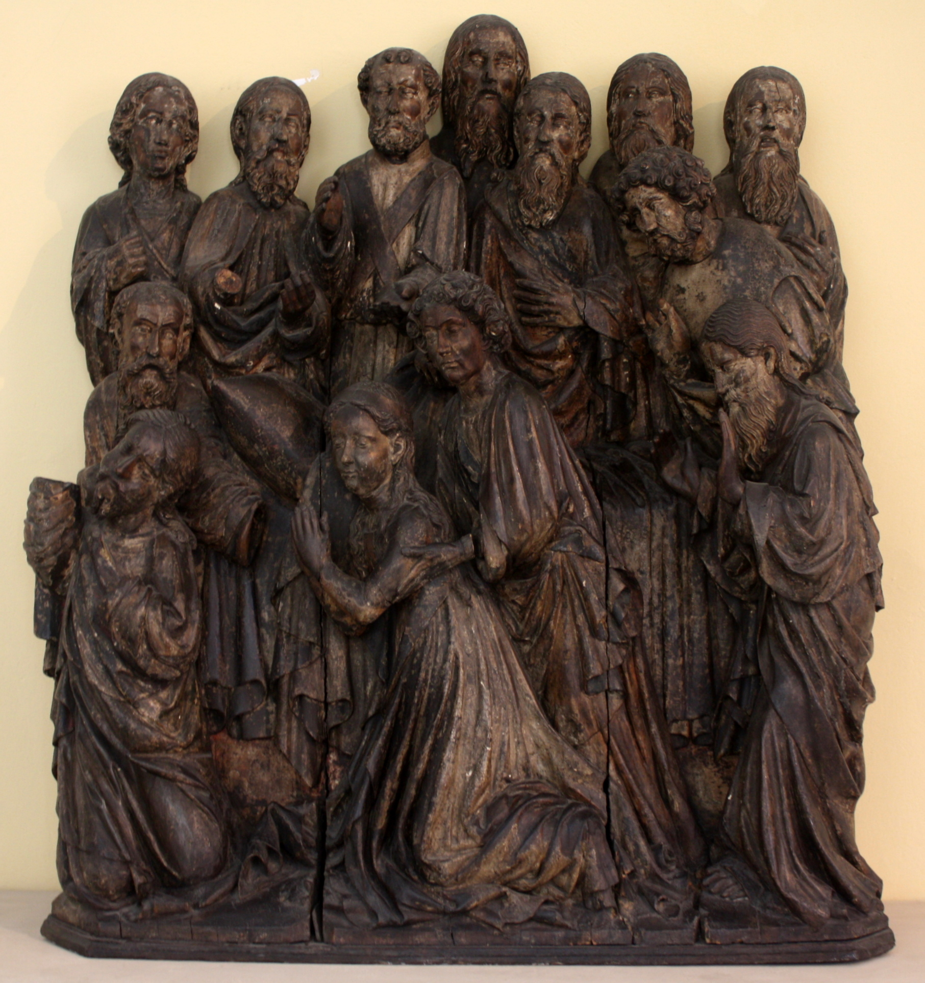 Gdańsk, Dormition of Virgin Mary XV c.